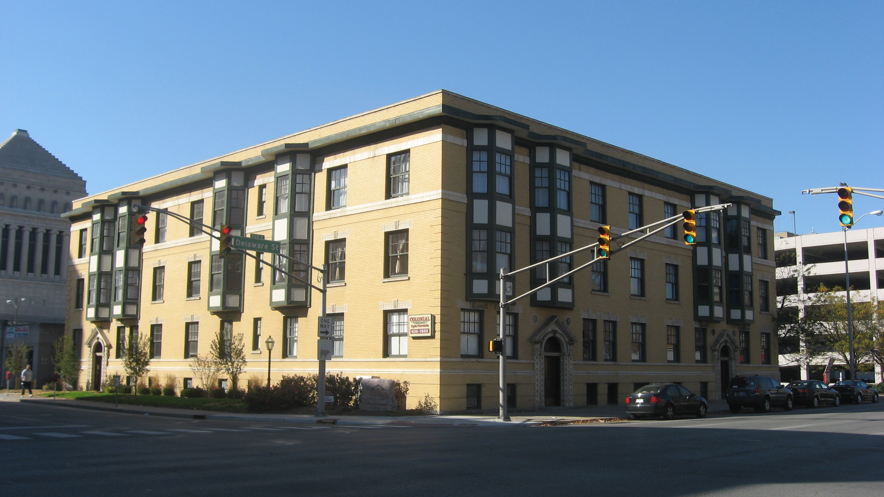 Southern and eastern sides of The Colonial, located on the northwestern corner of the intersection of Vermont and Delaware Streets in Indianapolis, Indiana, United States. Built in 1900, it is listed on the National Register of Historic Places.